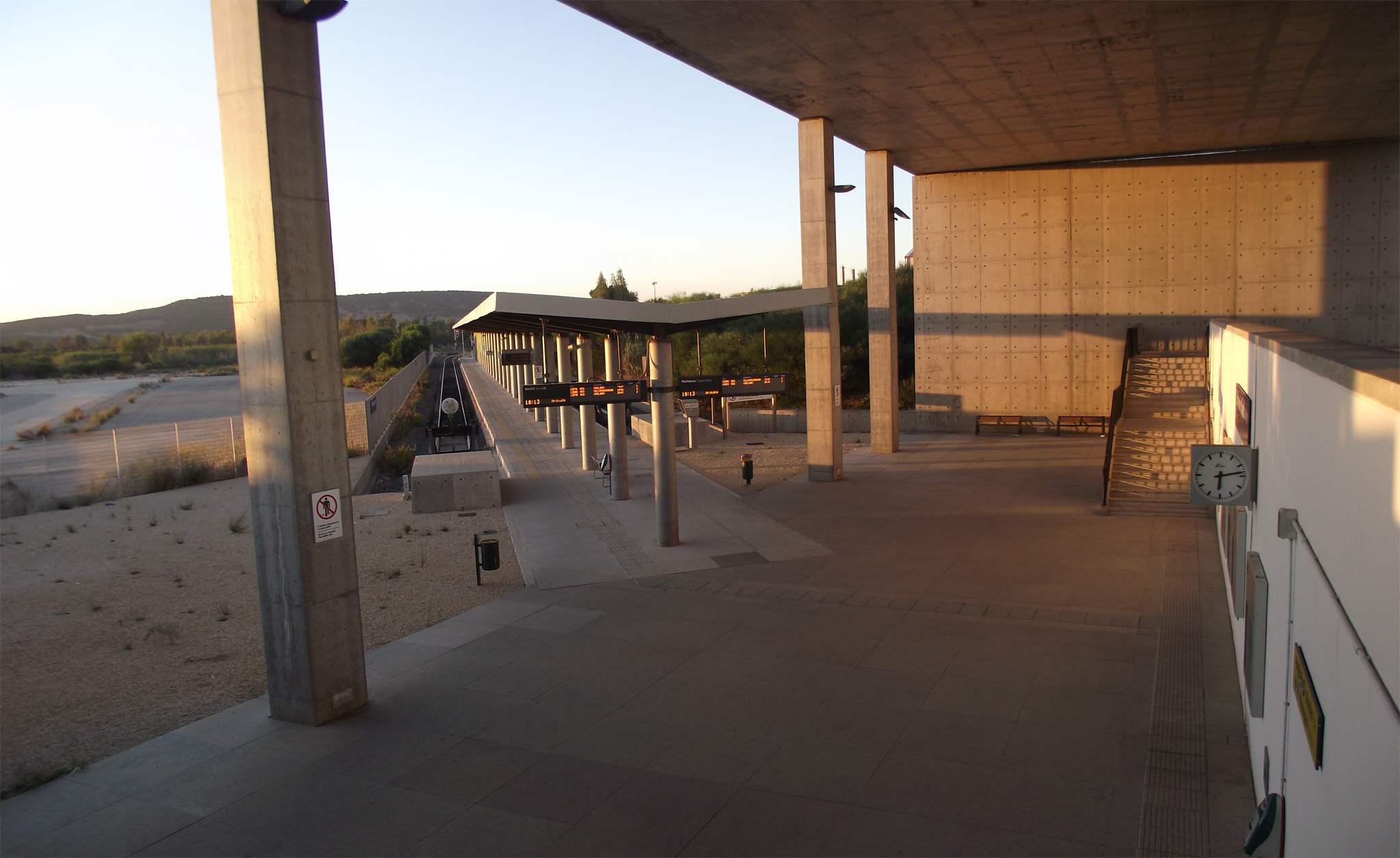 The rail terminal of the Carbonia Serbariu station, in Carbonia, Sardinia, Italy